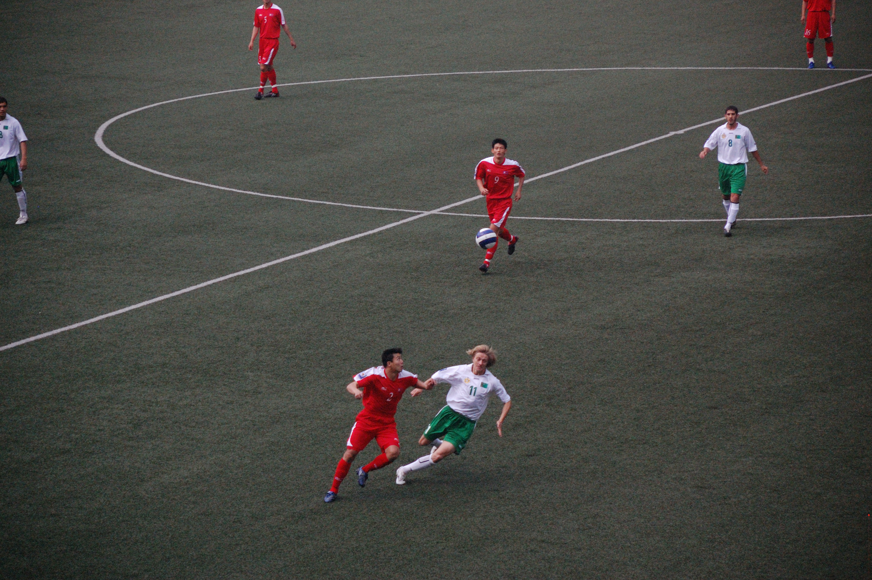 Trip to North Korea in June, 2008